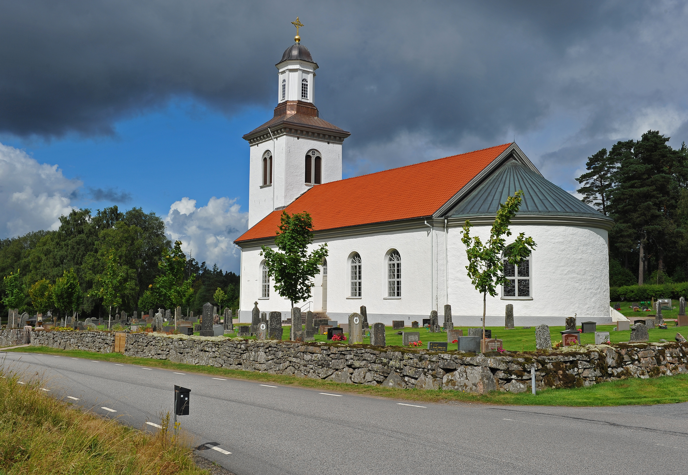 ÖRSÅS church